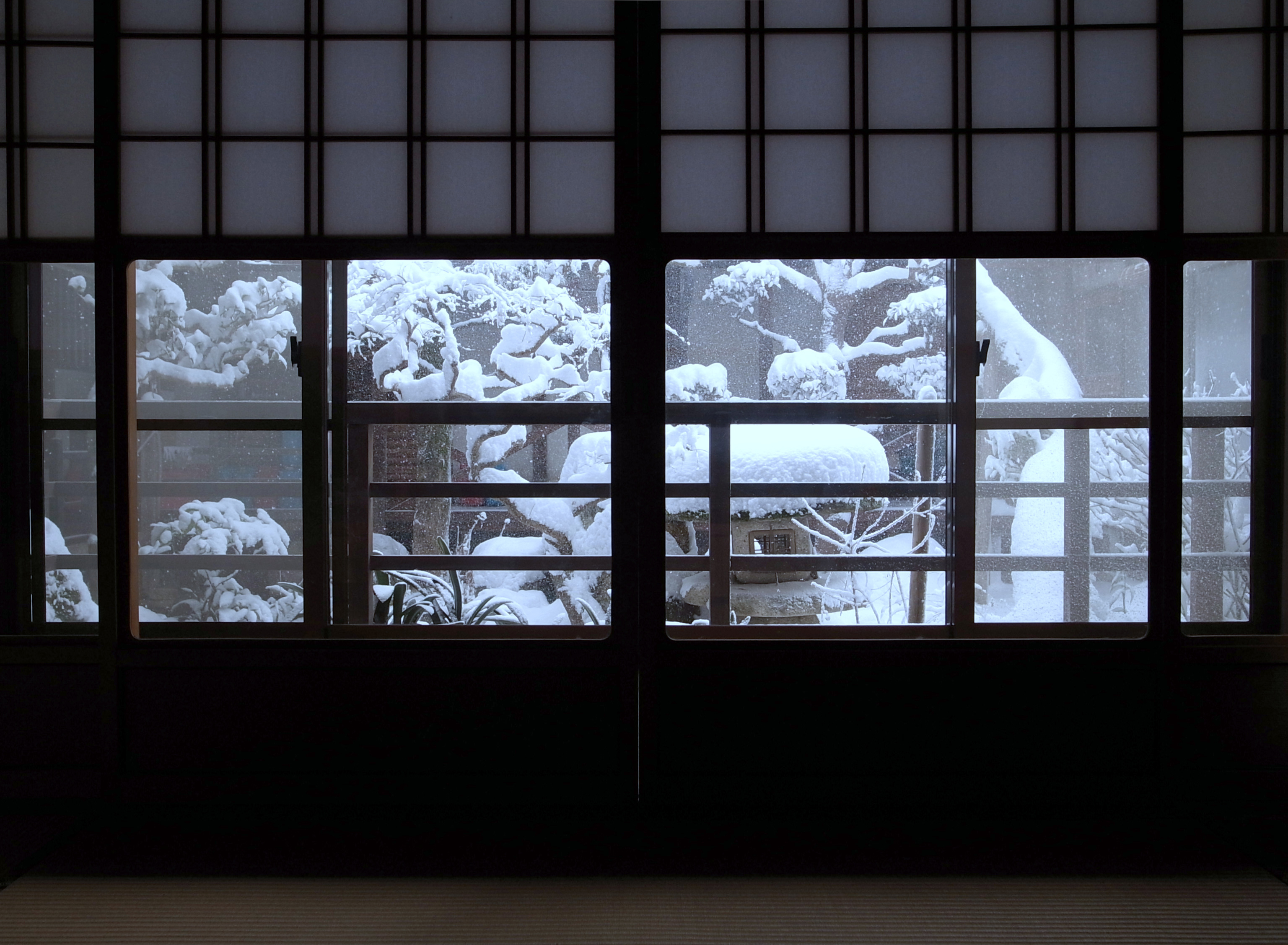 Yukimi-shōji (combination of window and shōji). Ricoh GR Digital III